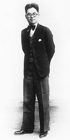 fancuiting